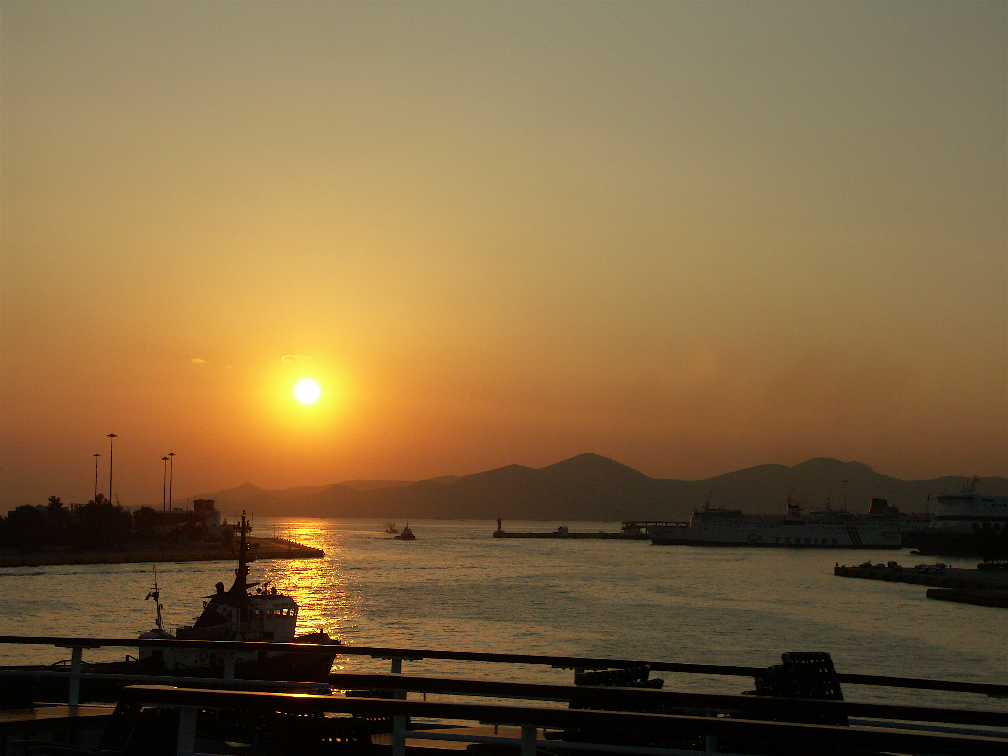 Piraeus is the port town of Athens.